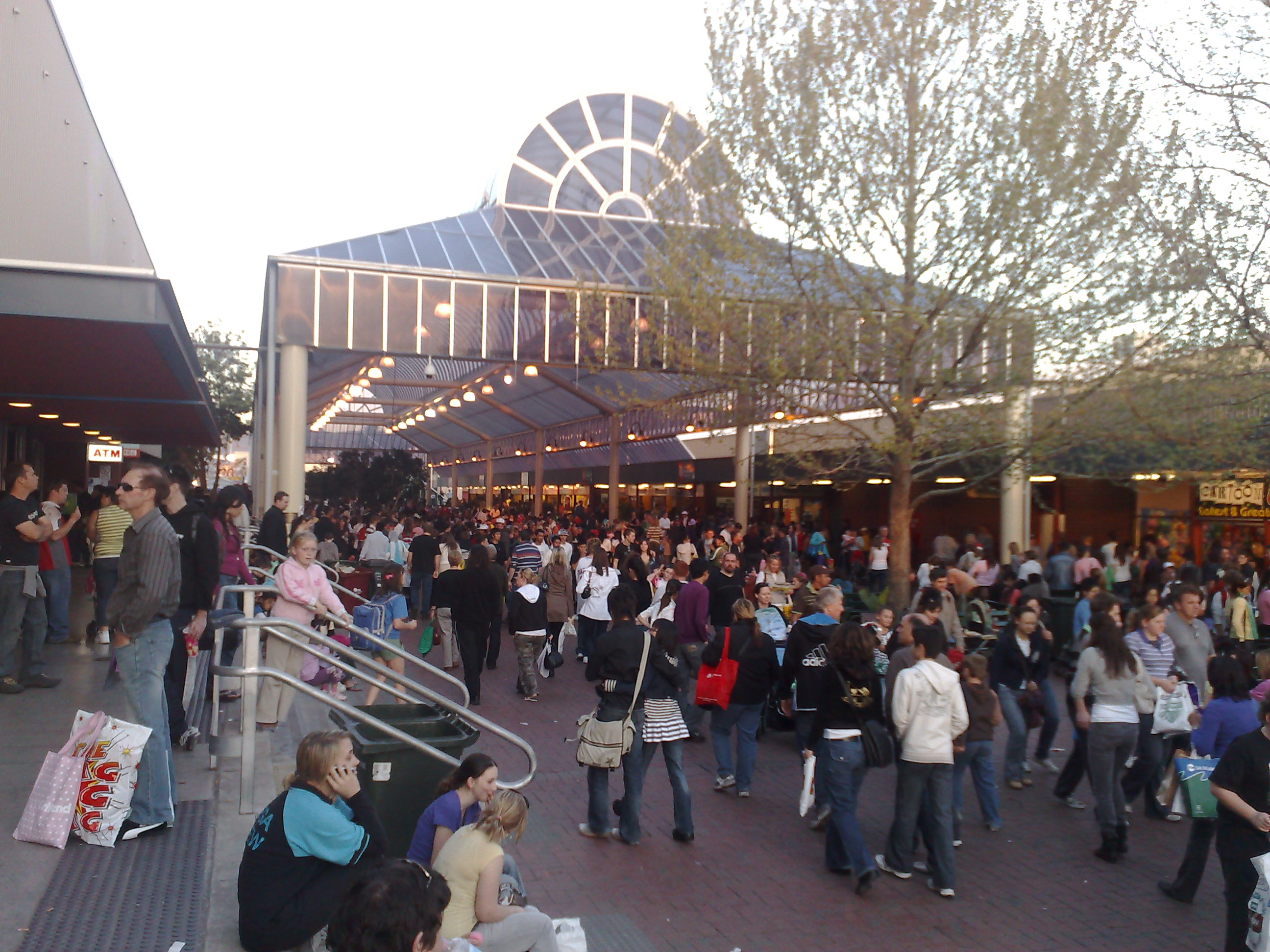 The Atrium at the 2007 Royal Adelaide Show0